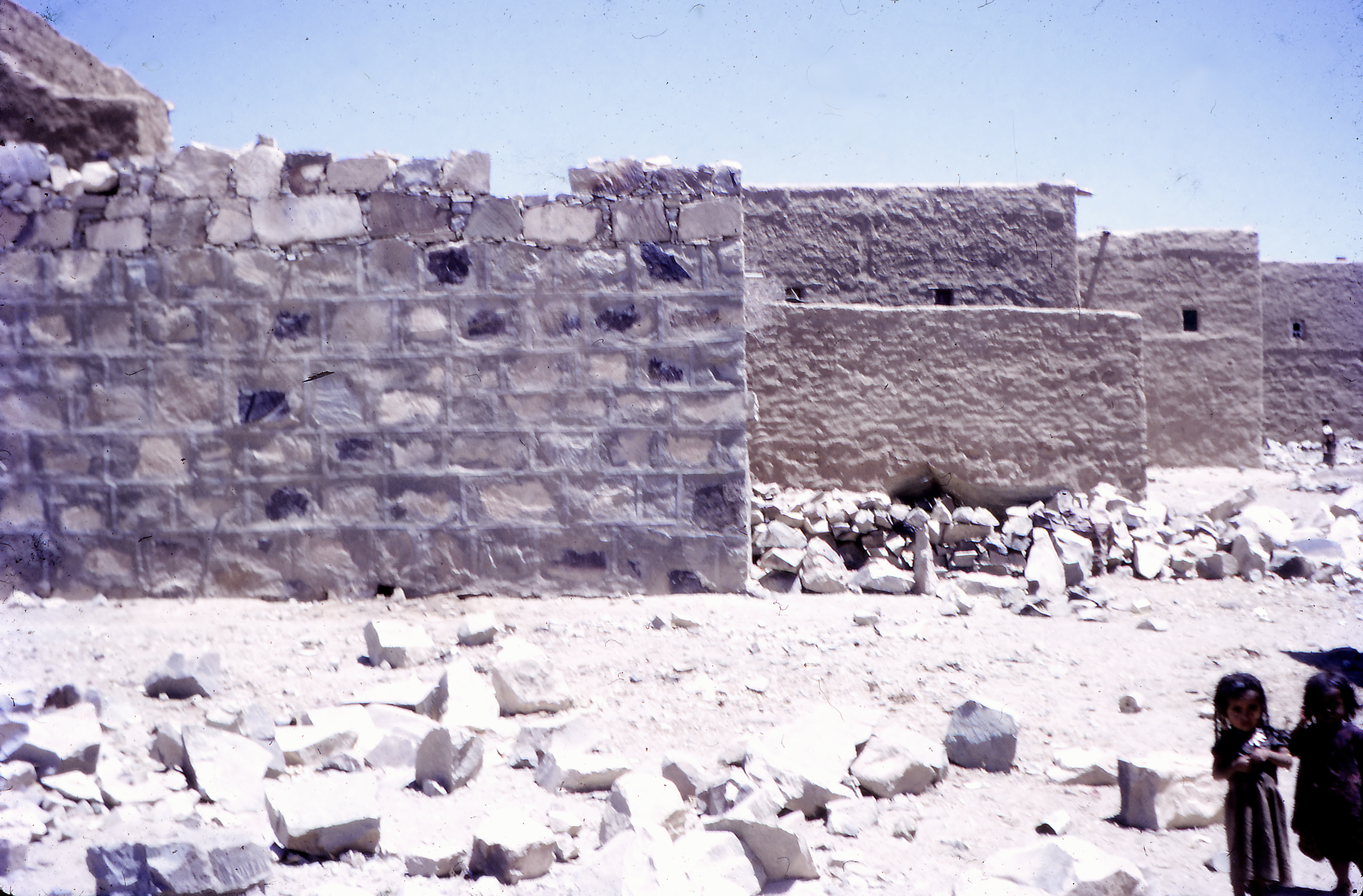 Approaching Mukayras, a small town in a stony desert valley about two miles from our military camp. Three gravel roads lead to and from the settlement along with countless footpaths and goat tracks.